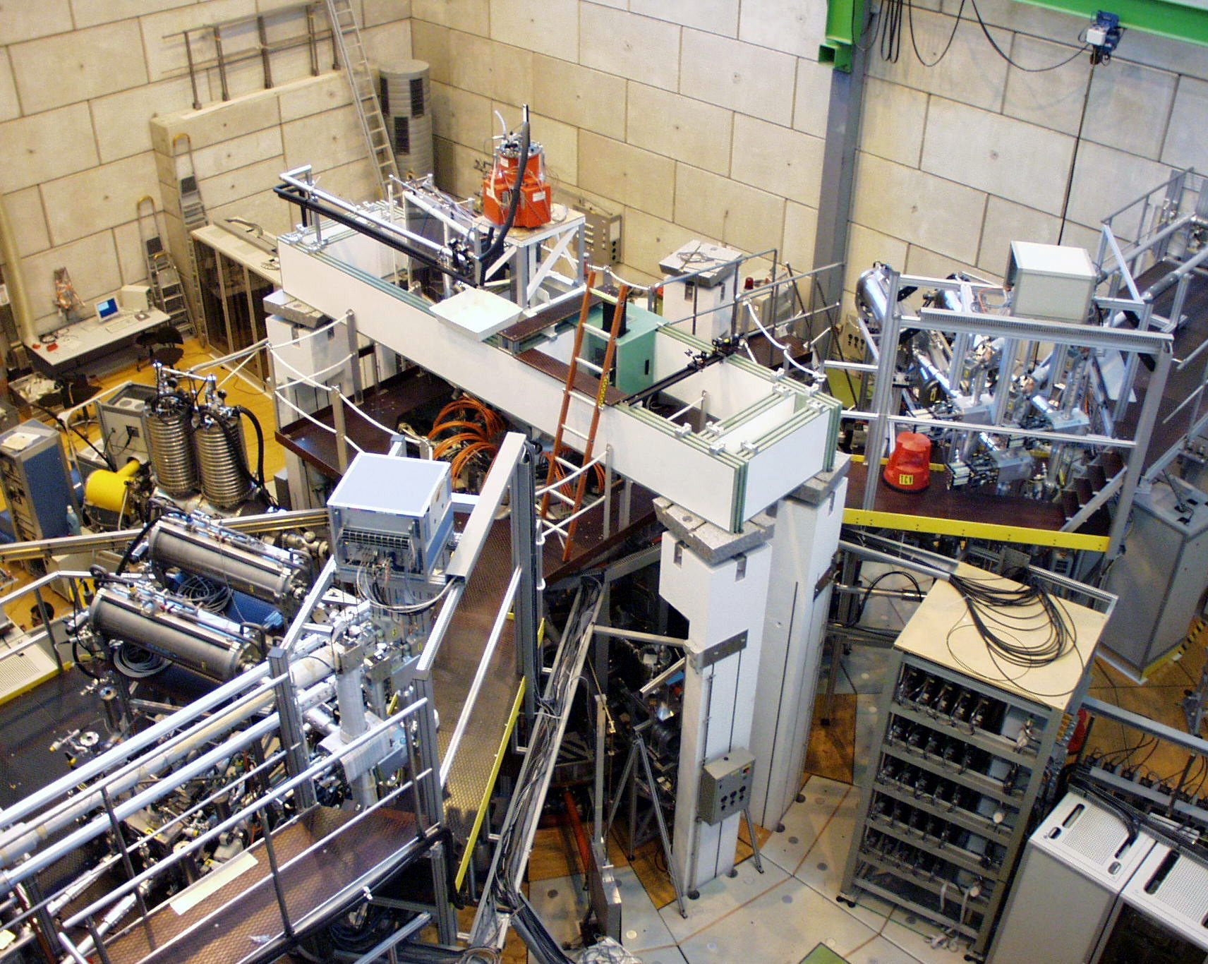 Tokamak à Configuration Variable (TCV), seen from above. Courtesy of CRPP-EPFL, Association Suisse-Euratom